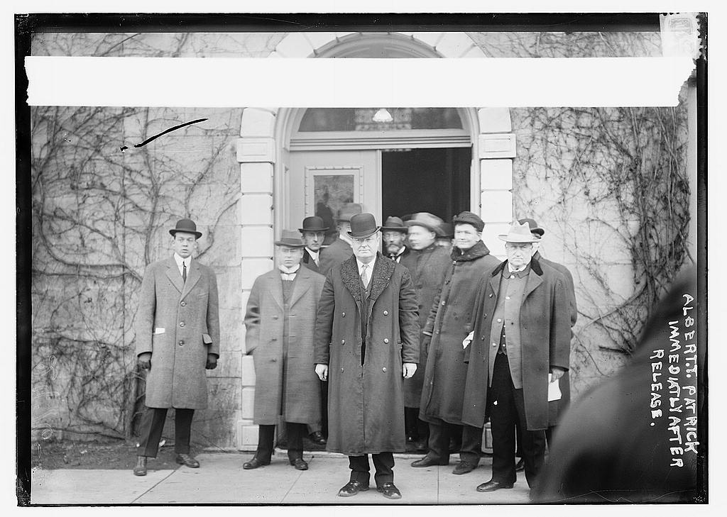 Bain News Service,, publisher. Albert T. Patrick immediately after release in 1913 [between 1910 and 1915] 1 negative : glass ; 5 x 7 in. or smaller. Notes: Title from unverified data provided by the Bain News Service on the negatives or caption cards. Forms part of: George Grantham Bain Collection (Library of Congress). Format: Glass negatives. Repository: Library of Congress, Prints and Photographs Division, Washington, D.C. 20540 USA, General information about the Bain Collection is available at Persistent URL: Call Number: LC-B2- 2476-7